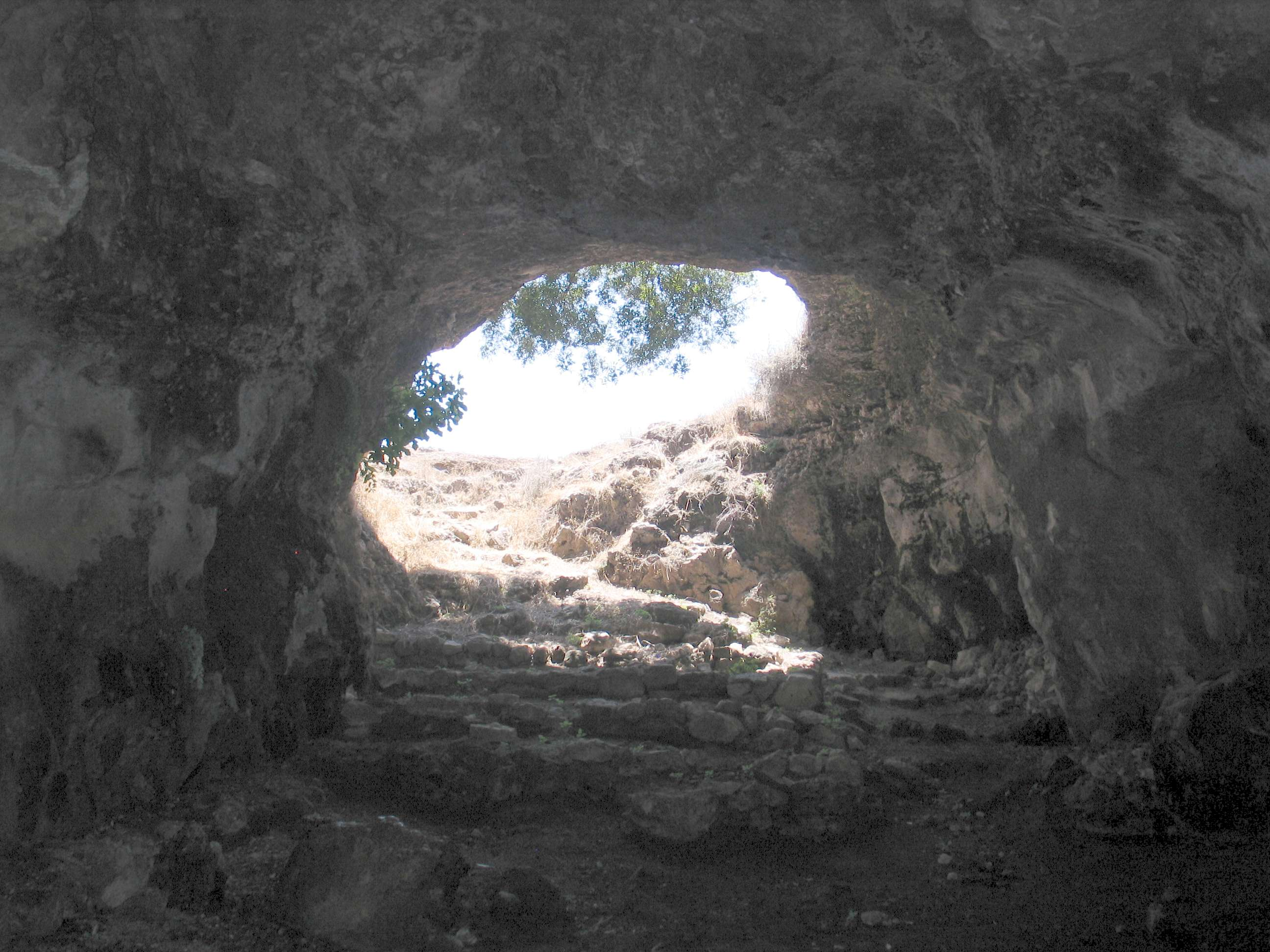 Tel Yodfat, Israel.